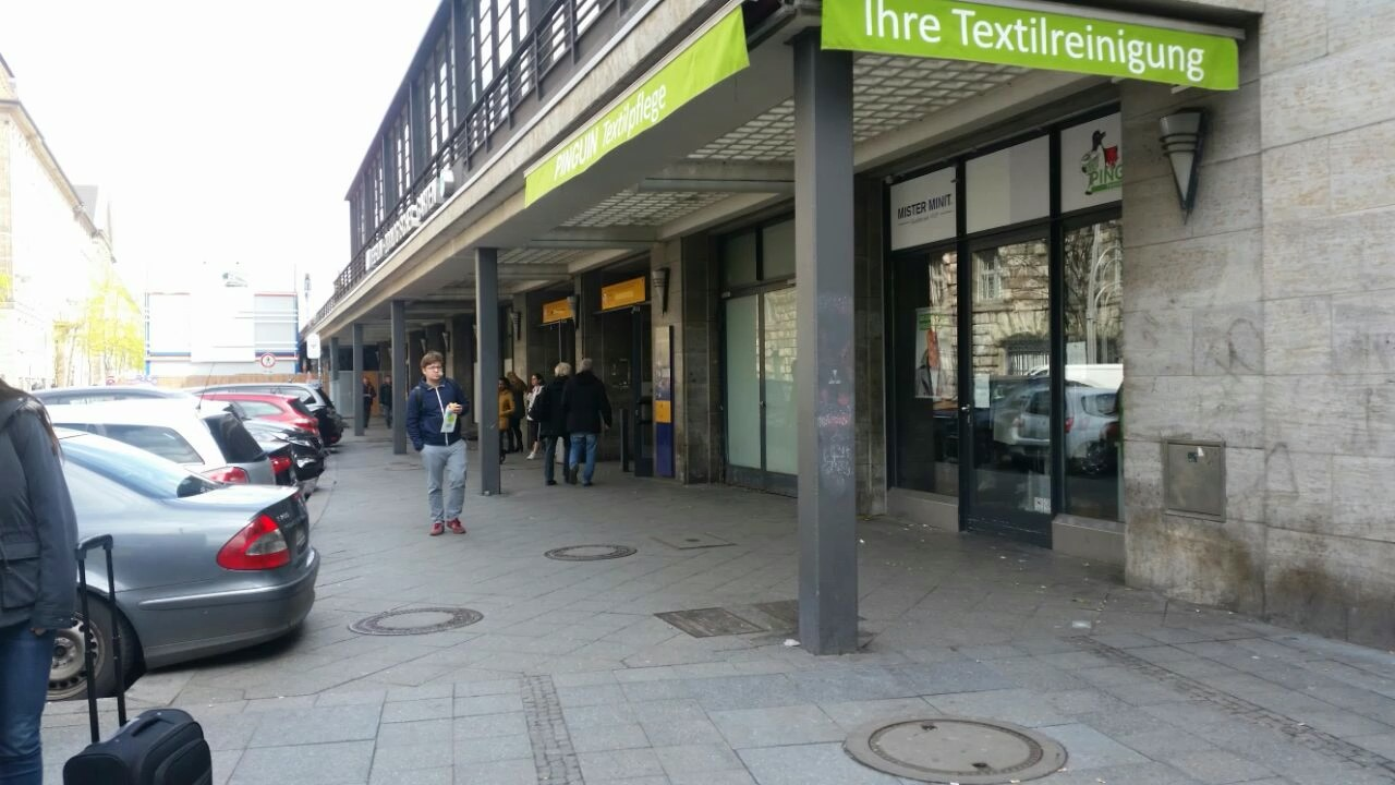 Jebensstraße, rear entrance of Bahnhof Zoo, Berlin.